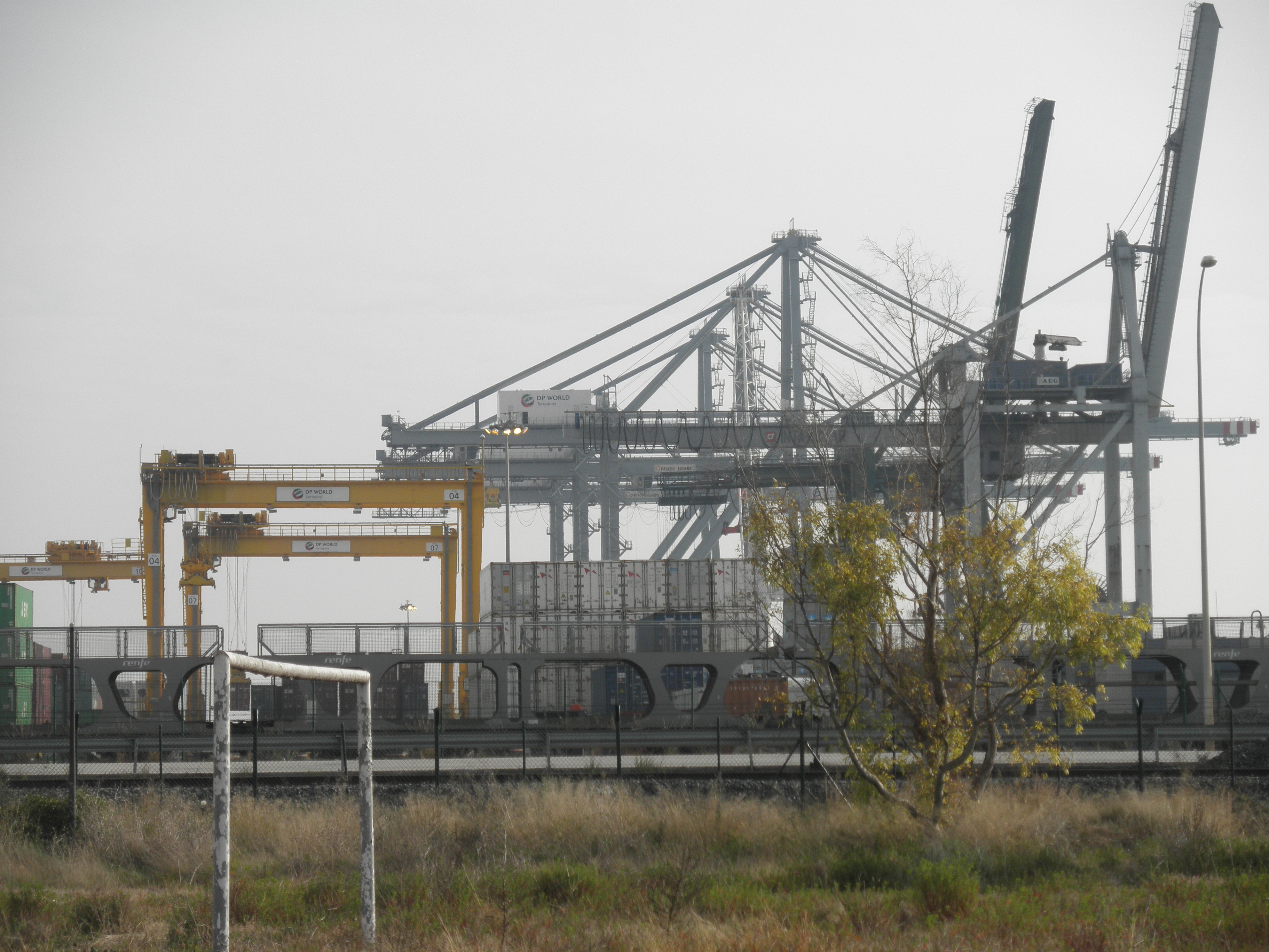 Cranes in Tarragona's port.